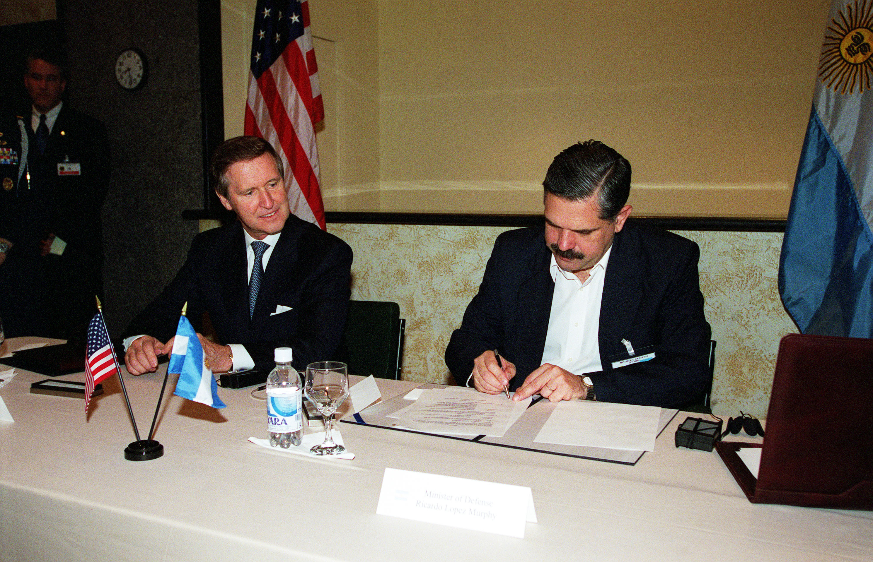 Secretary of Defense William S. Cohen (left) and Argentinian Minister of Defense Ricardo Lopez Murphy (right) sign an agreement in Manaus, Brazil, on Oct. 17, 2000, concerning the exchange of research and development information. The agreement allows the two nations to share sensitive information on a wide range of subjects including arms programs, acquisition and terrorism. The defense leaders are in Manaus attending the Defense Ministerial of the Americas IV.